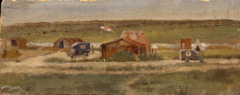 An Advanced Dressing-station of the 36th Field Ambulance at Lieramont image: A group of huts form the advanced dressing station of the 36th Field Ambulance, situated next to a road near Liéramont in the Somme. There is a flagpole next to the largest hut bearing a red cross flag to try to prevent aerial attack. A motor ambulance is outside the main hut, whilst another moves along the road driving away from the camp.